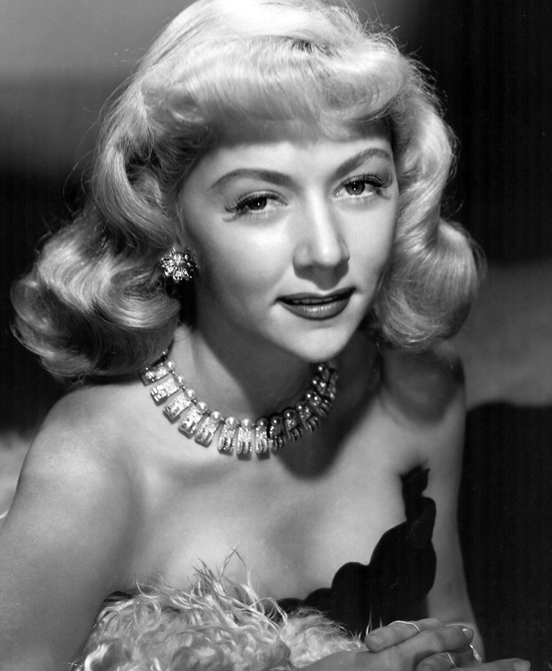 Publicity photo of Gloria Grahame